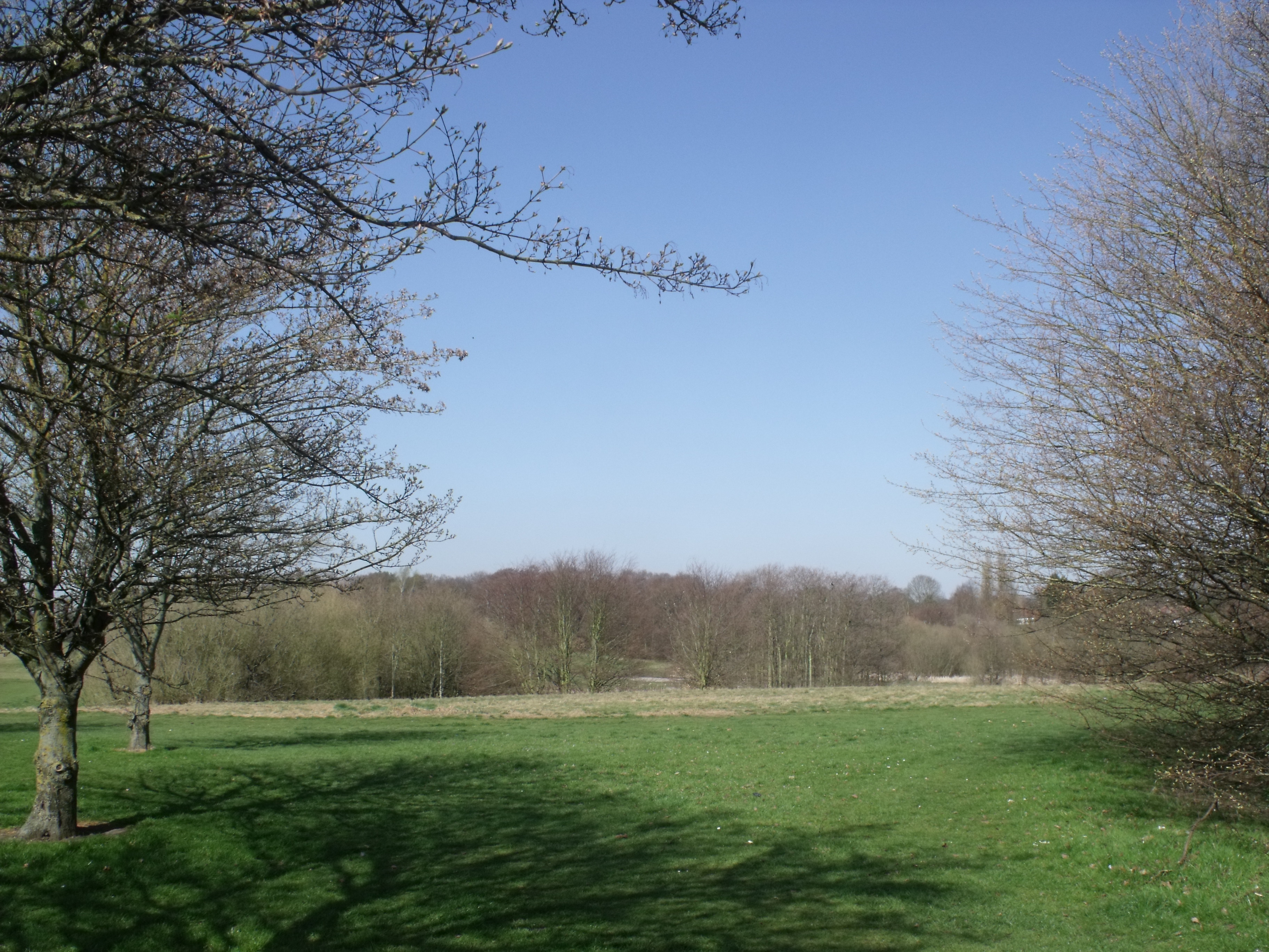 A hot March afternoon in Birmingham. From Brook Lane in Billesley. Was on my way to the section of Shire Country Park from Moseley / Hall Green to Yardley Wood. Trees in Swanshurst Park from Brook Lane.